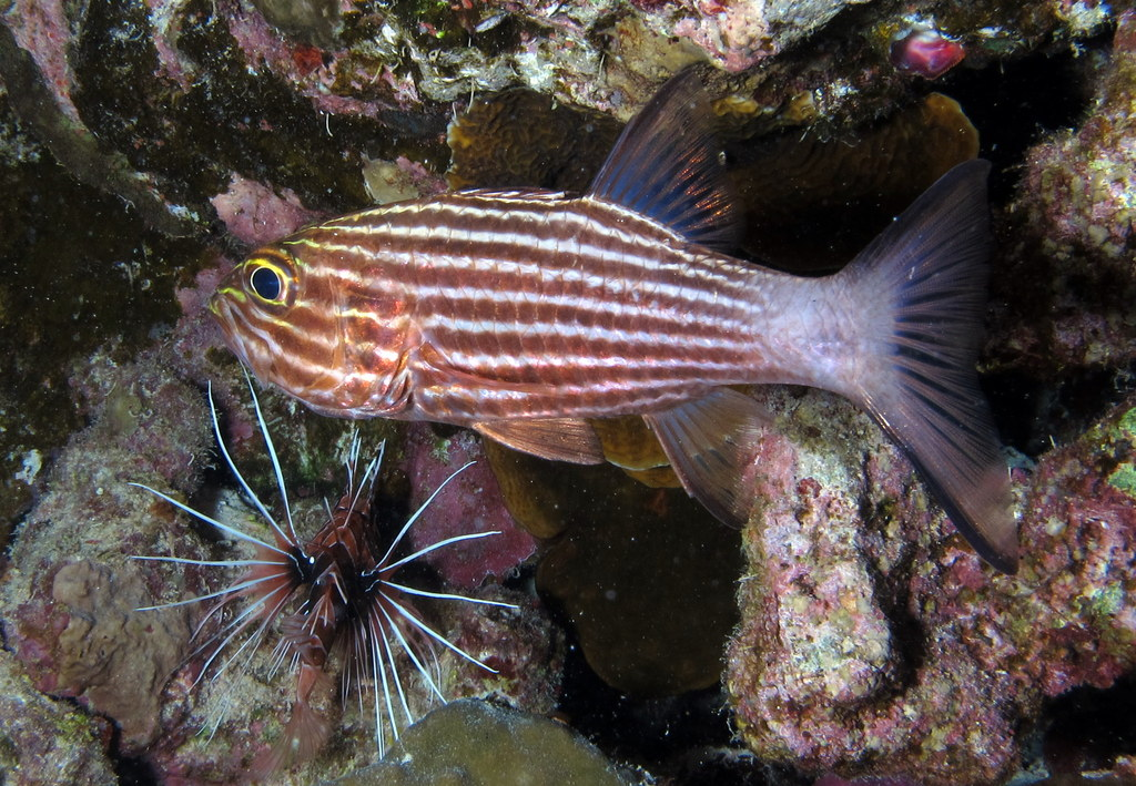 Tiger Cardinalfish, (Cheilodipterus macrodon) at Fanous East Reef, Red Sea, Egypt